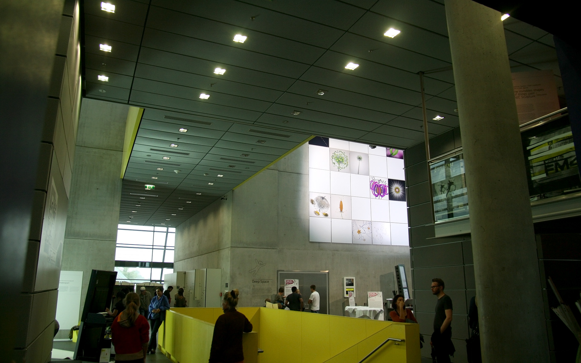 At Ars Electronica Center during Ars Electronica 2012 in Linz, Upper Austria.